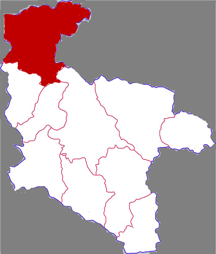 Location of Ningshan county in Ankang city, China